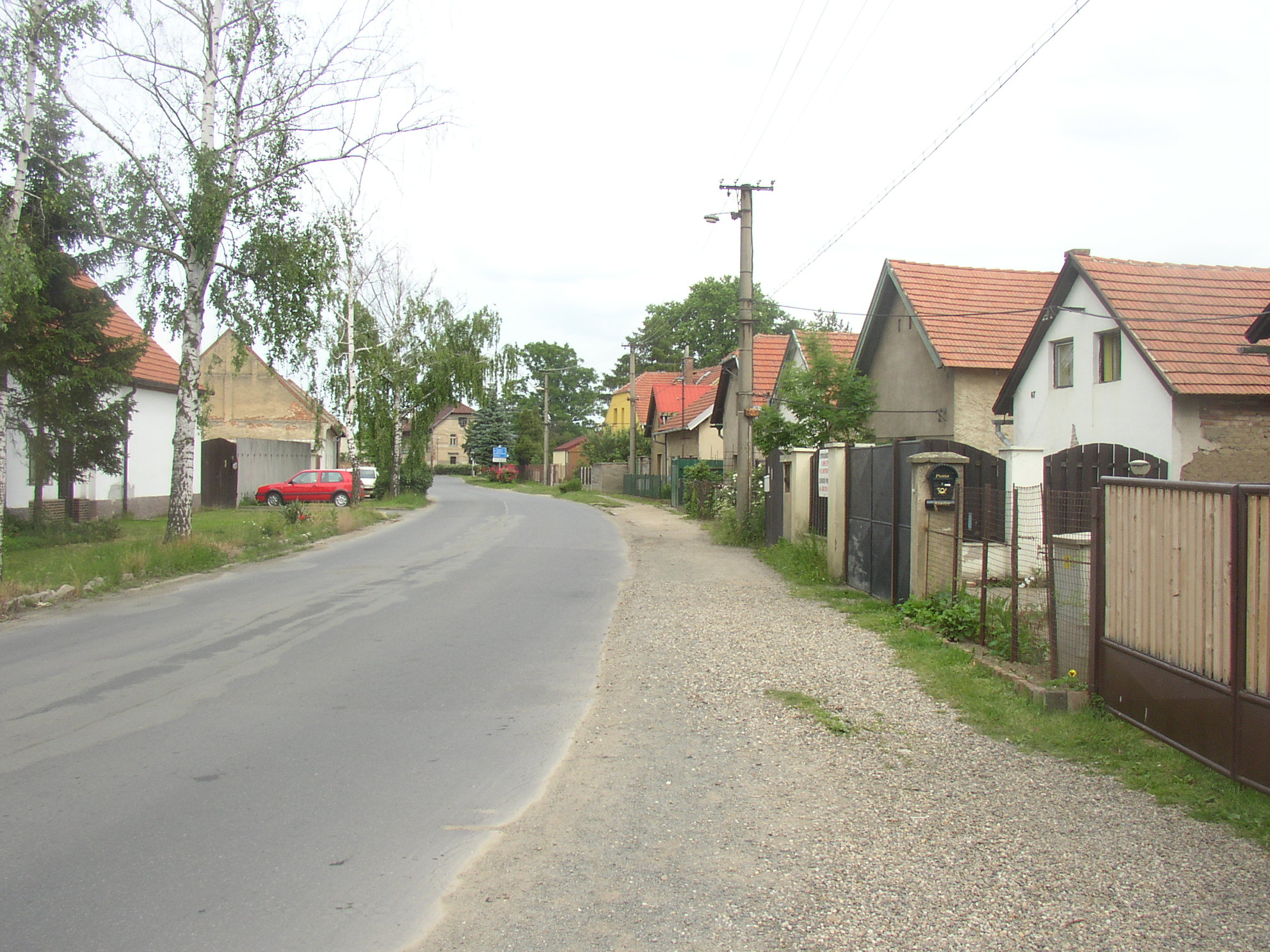 Hostín u Vojkovic, Mělník District, Czech Republic. A view along thoroughfare in western part of the village towards its centre (as if coming from Vojkovice).